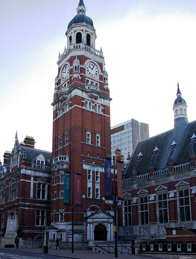 The Croydon Clocktower arts centre, Croydon, Surrey (Greater London)